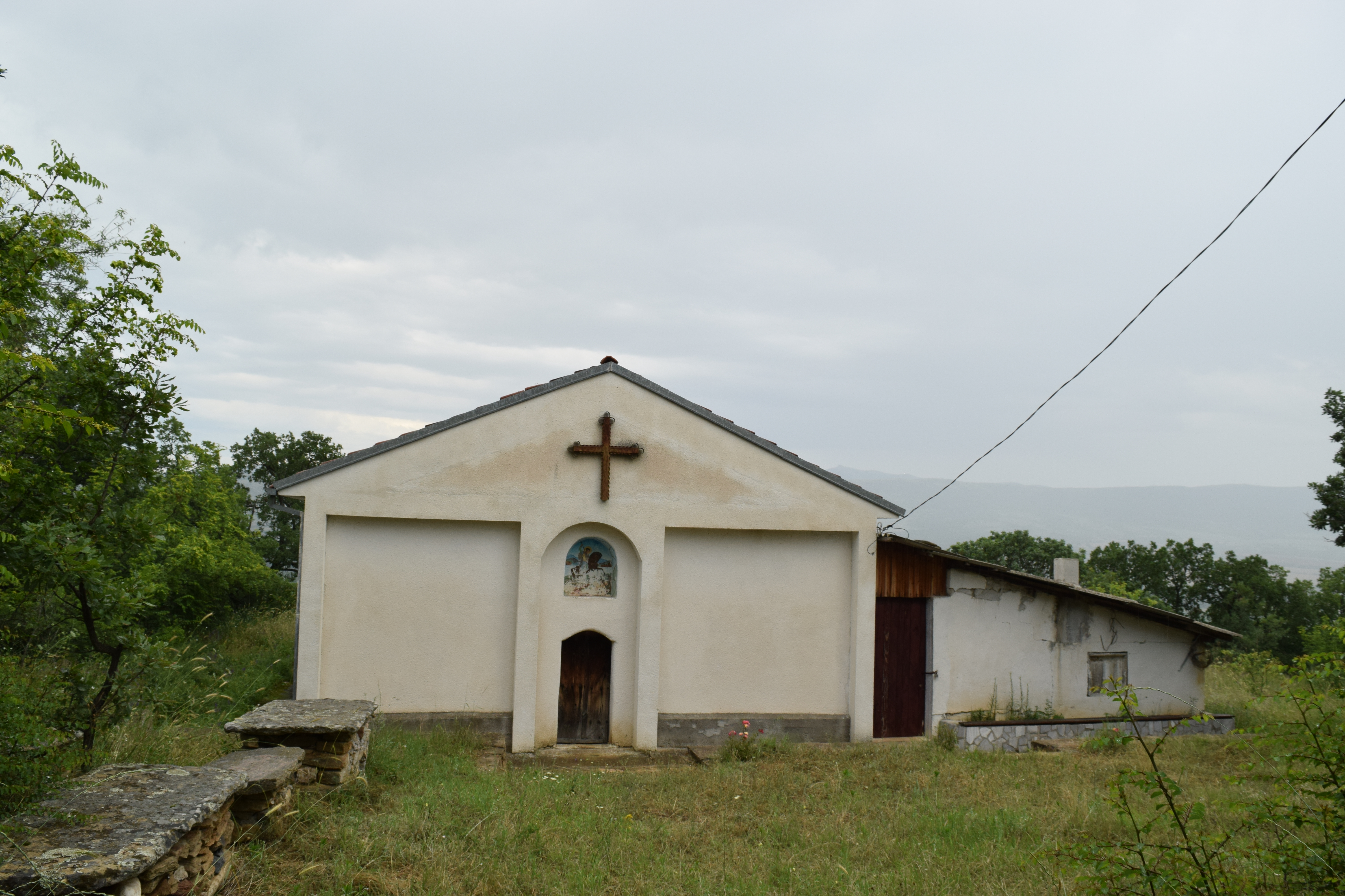 View of the St. Demetrious Church in the village Stari Grad